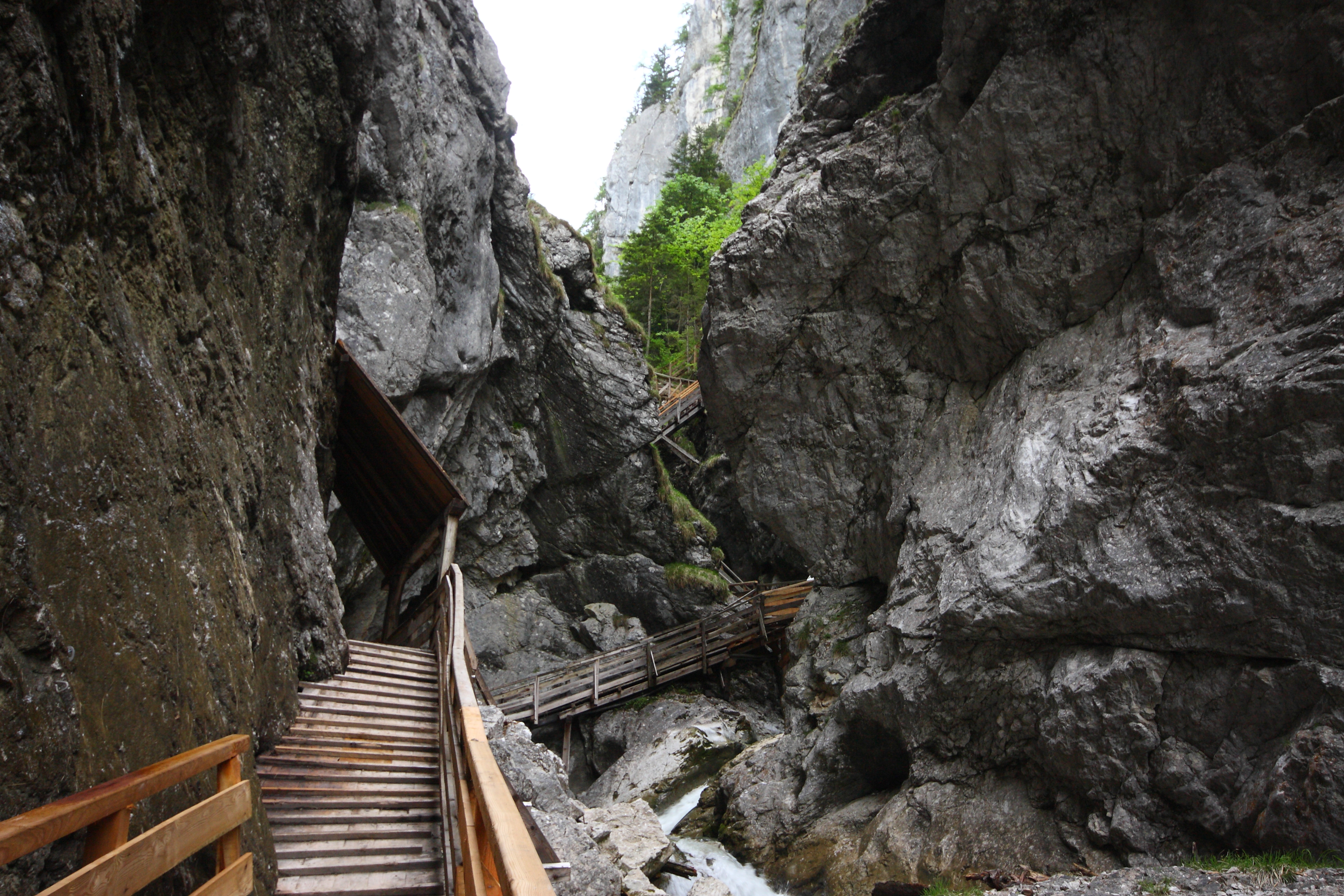 Wörschachklamm , Wörschach, Styria, Austria